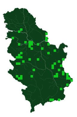 Rasprsotranjenje vrste u Srbiji (Alciphron)